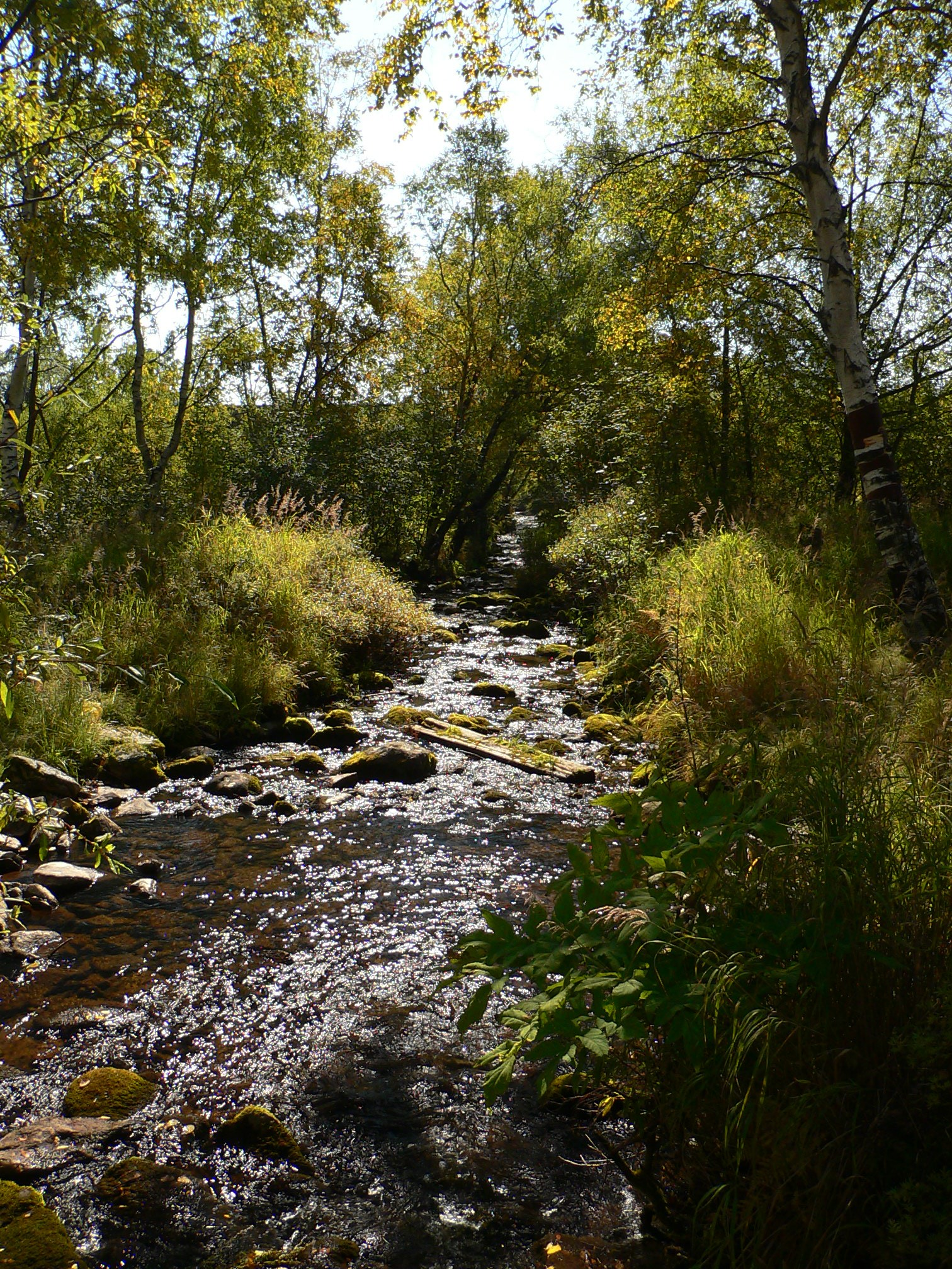 One of the many rivers flowing into the Baikal lake. Over 300 rivers flow into the lake, only one, the Angara, flows out.